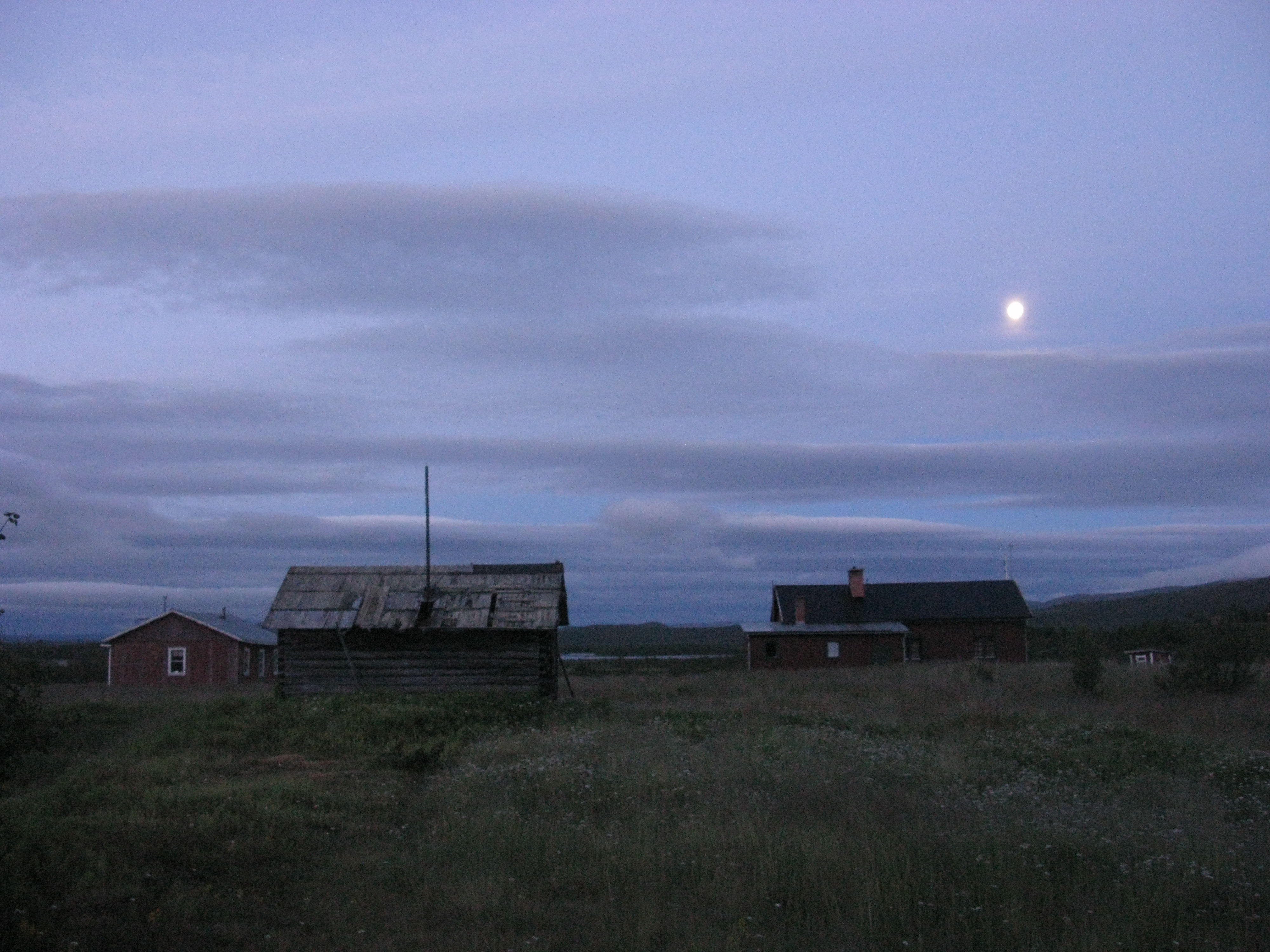 Full moon over Kummavuopio, Swedens northernmost inhabitation, around midnight, early August 2012.